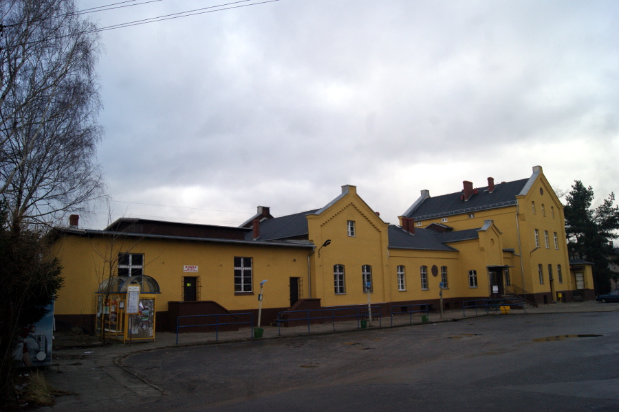 Train and bus station in Gryfów Śląski